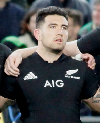 2017.08.19.20.03.18-NZL anthem 2017 Rugby Championship, Bledisloe 1, Australia vs New Zealand, 19th August, ANZ Stadium, Sydney